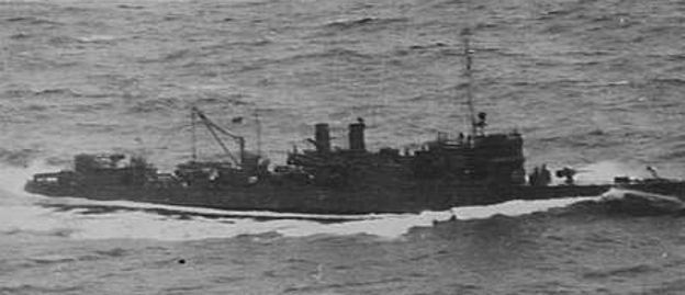 The U.S. Navy seaplane tender USS William B. Preston (AVD-7) in 1942.